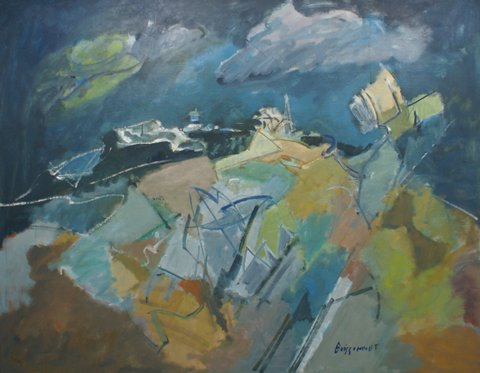 Edmond Boissonnet Huile sur toile, 1983.